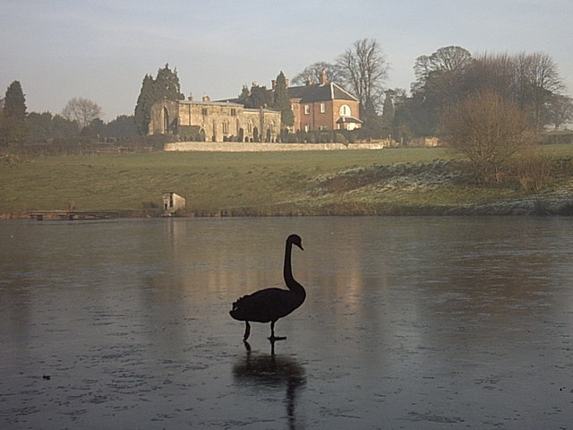 Bradley Church and Hall from Ladypond Resident black Swan ice skating...